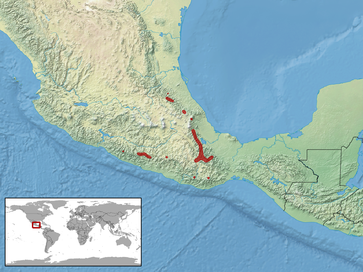 geographic distribution of Ophryacus undulatus (Native: Mexico)